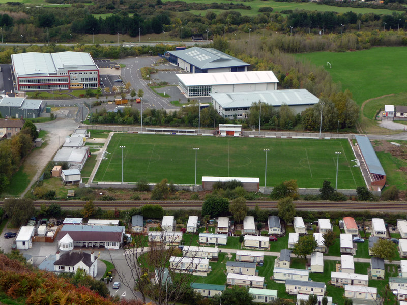 Morfa Stadium, near to Conwy, Conwy, Great Britain. Viewed from Conwy Mountain in the adjacent square. The Morfa is home to Conwy United Football Club.